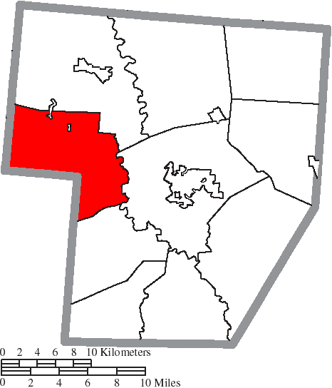 Map of the municipal and township boundaries of Fayette County, Ohio, United States, as of the 2000 census, with the location of Jasper Township highlighted. Township borders are shown only in unincorporated areas in order to differentiate incorporated and unincorporated areas more clearly.